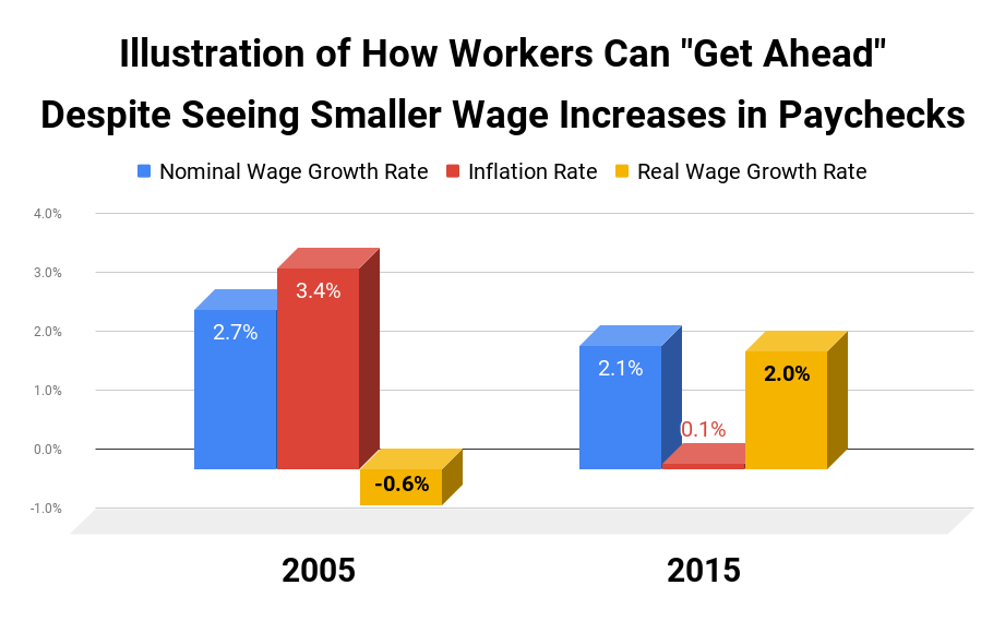 Illustration of How Workers Can "Get Ahead" Despite Seeing Smaller Wage Increases in Paychecks